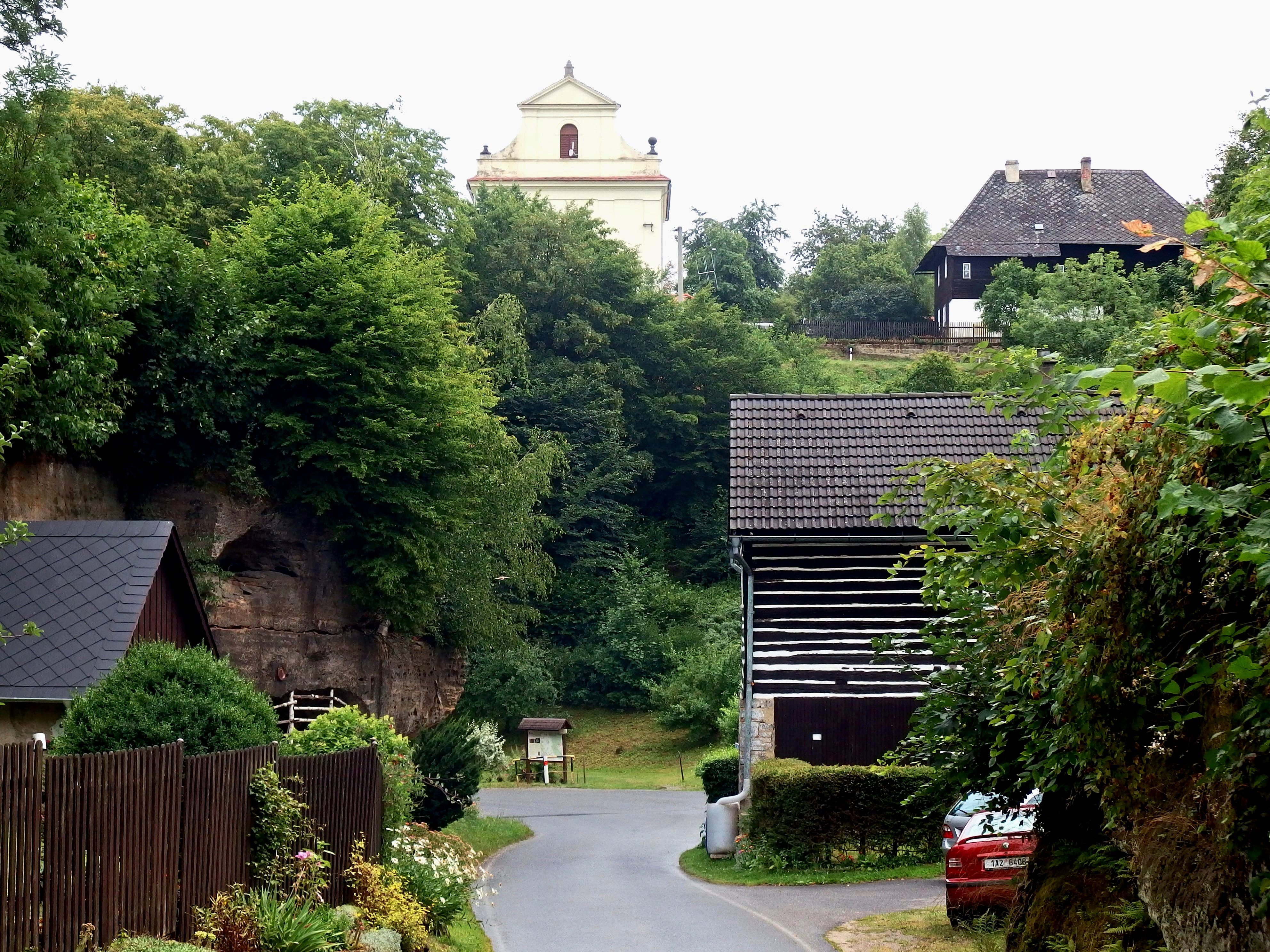 Doksy, Česká Lípa District, Czech Republic, part Kruh.